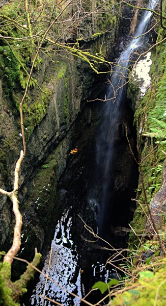 Alum Pot. Two cavers are exiting from the pothole, which is about 60m deep at that point - and quite wet and mossy!